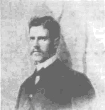 Portrait of IMARO member Krastyo Asenov from Sliven